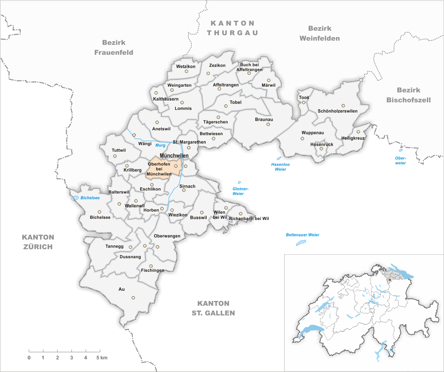 Municipality Oberhofen